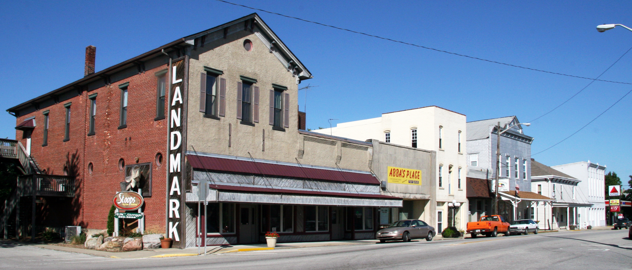 Buildings along Jackson Street in the town of Mulberry, Indiana. Photo looks northeast from the corner of Jackson and Glick.